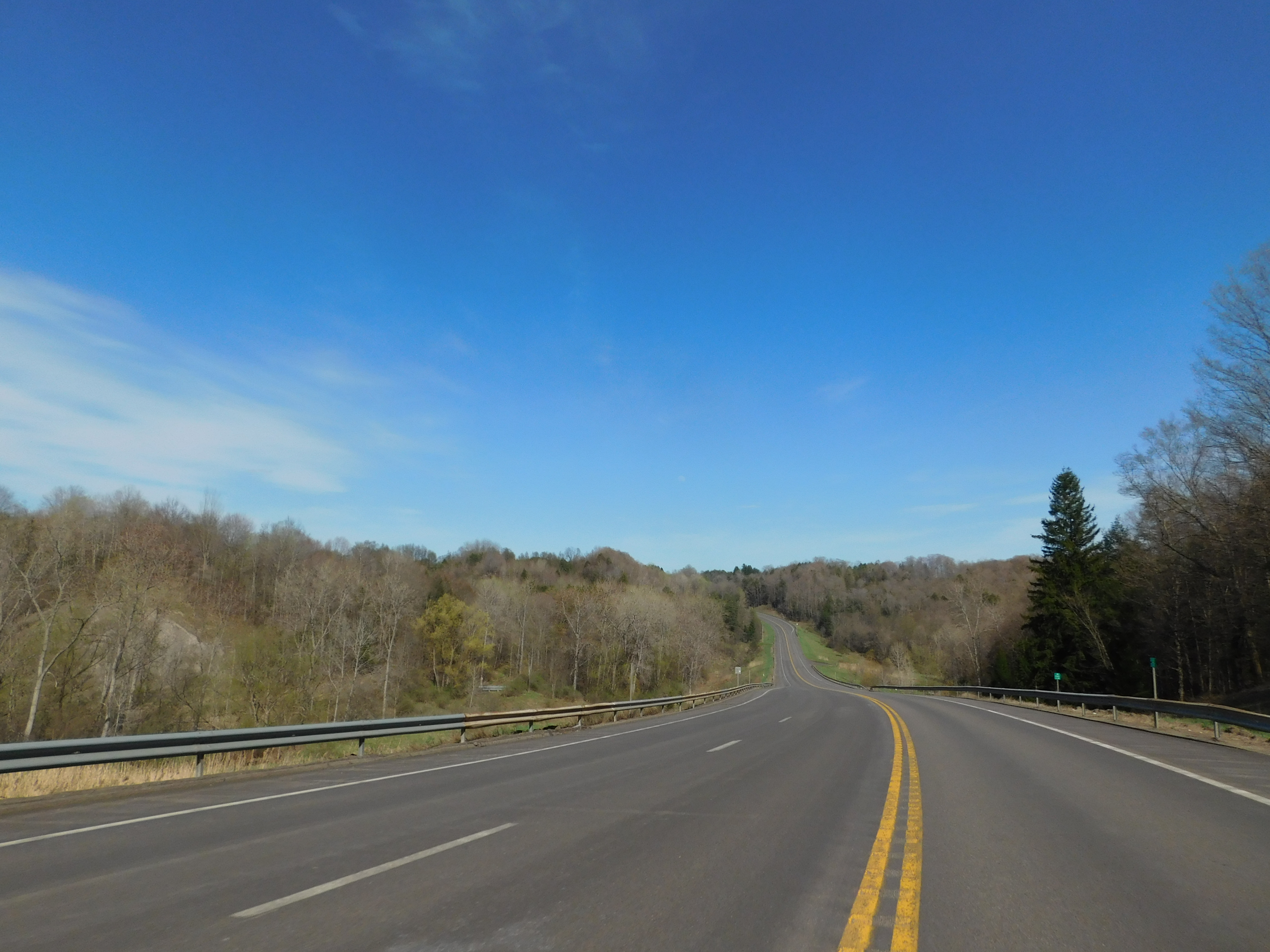 New York State Route 39 west of Springville, New York